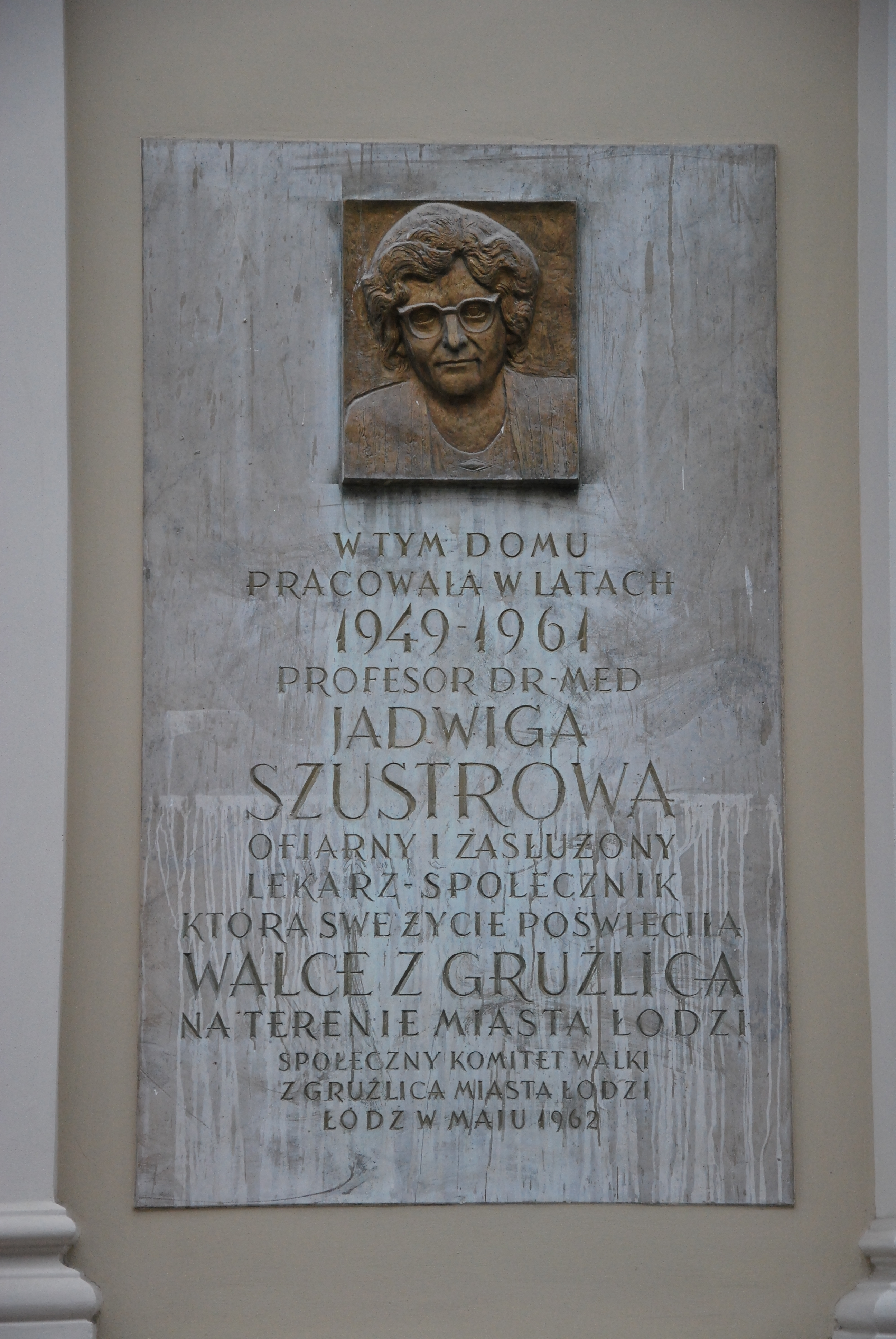 Plaque Jadwiga Szustrowa, 7-9 Moniuszki Street Łódź